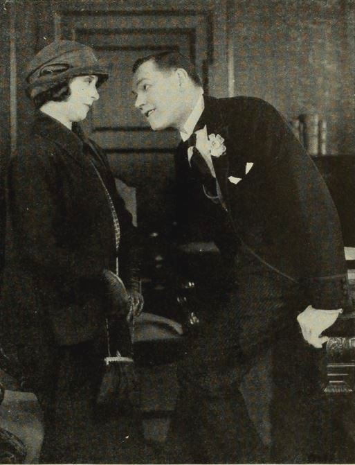 Still from the American film A Tailor-Made Man (1922) with Ethel Grandin and Charles Ray, page 67 of the August 1922 Photoplay. Grandin had announced her retirement, but at the request of Ray agreed to appear in this, her last film.